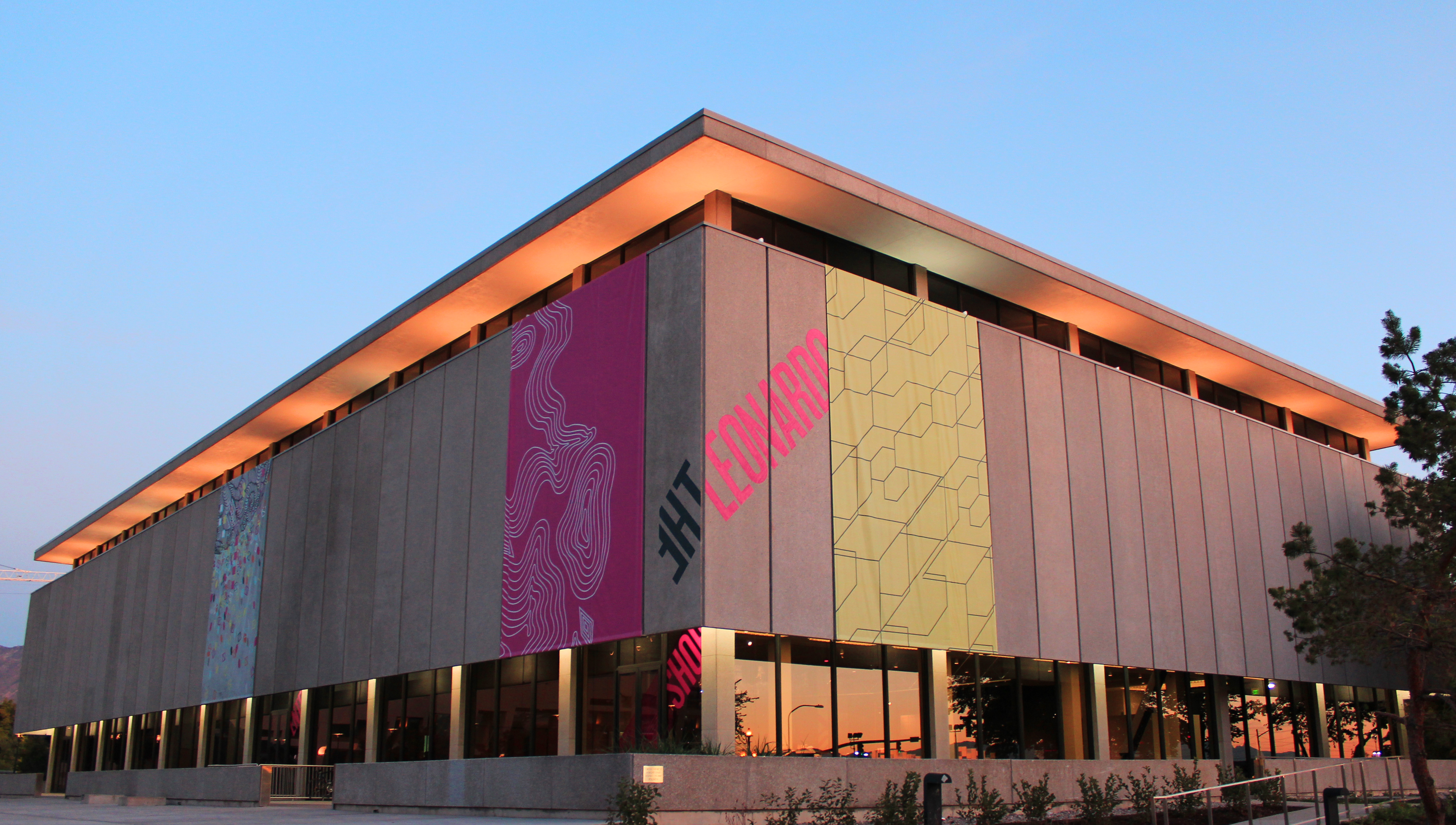 Exterior of The Leonardo museum in Salt Lake City, Utah